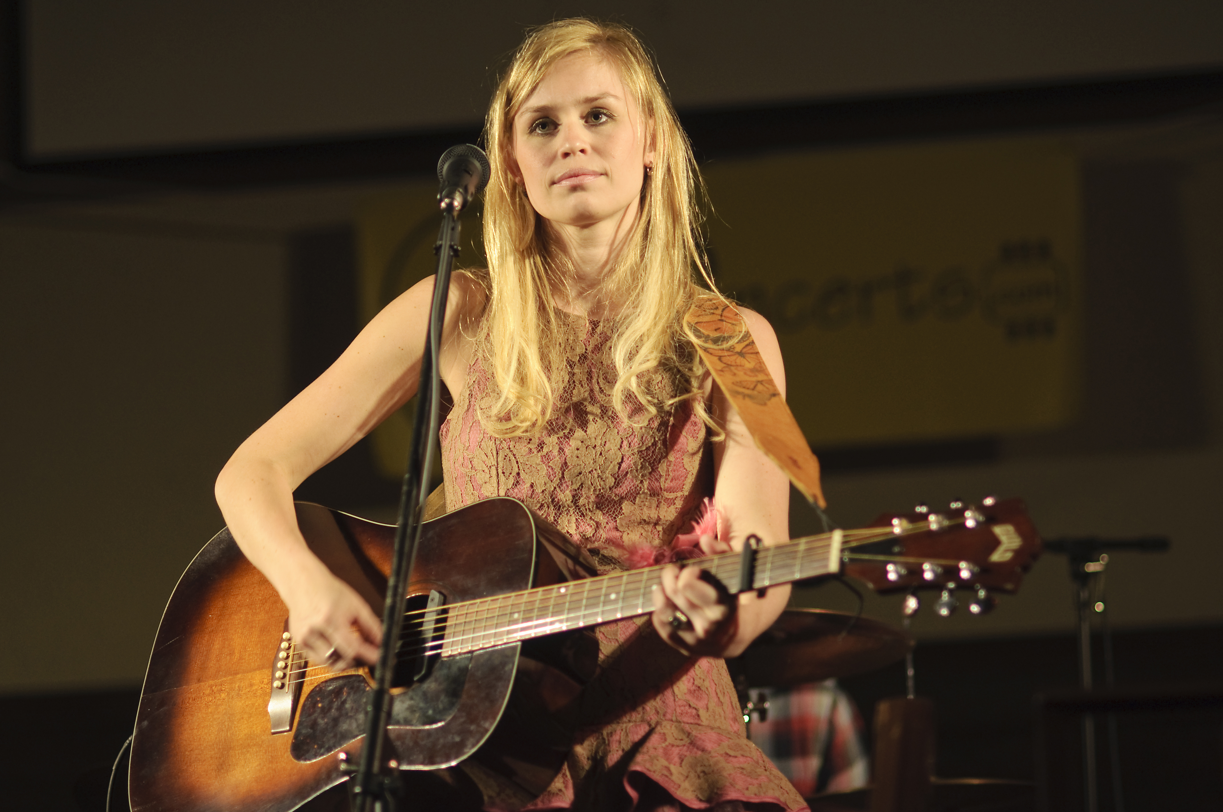 Sofia Talvik March 2010 San Diego AMSD Live Music